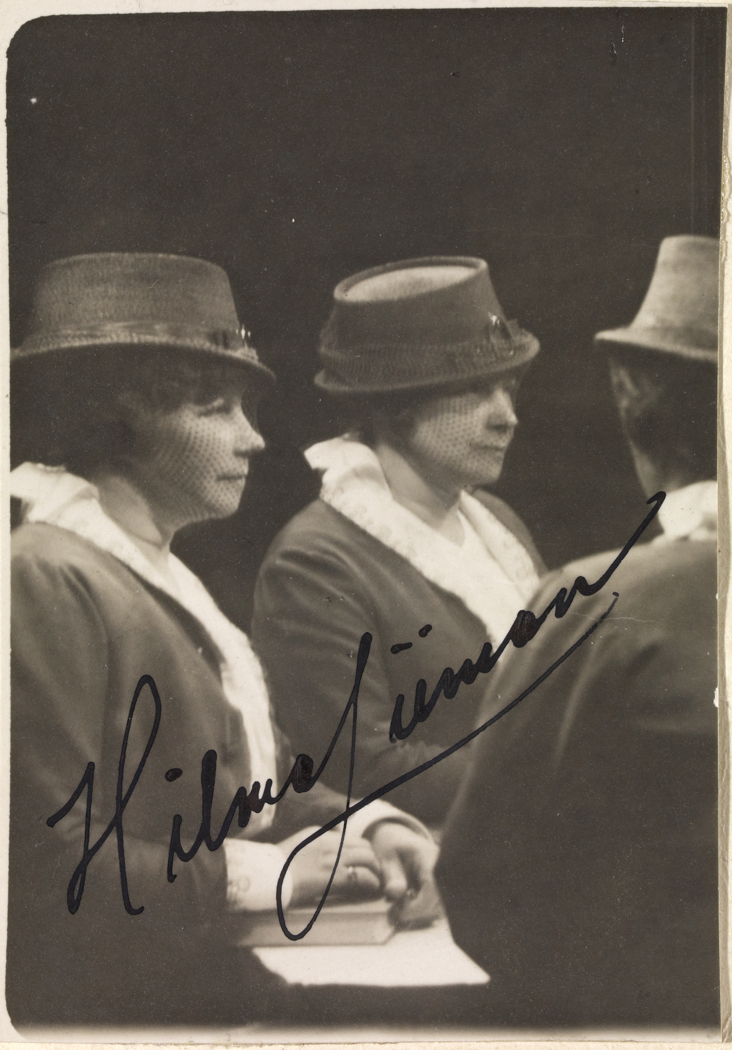 Photograph of the Finnish dancer Hilma Liiman (1872–1937).